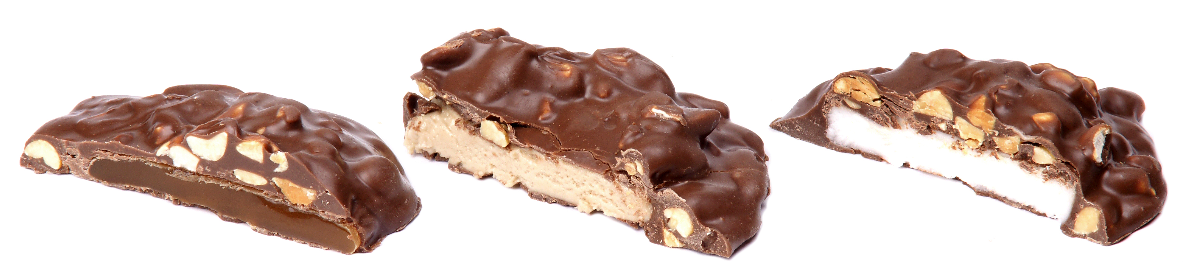 The entire line of Pearson's Bun Bars split, showing the different fillings. From left: caramel, maple and vanilla. Candy was provided from the Pearson's Candy Company to Evan-Amos for the direct purpose of adding pictures to the Wikipedia articles.